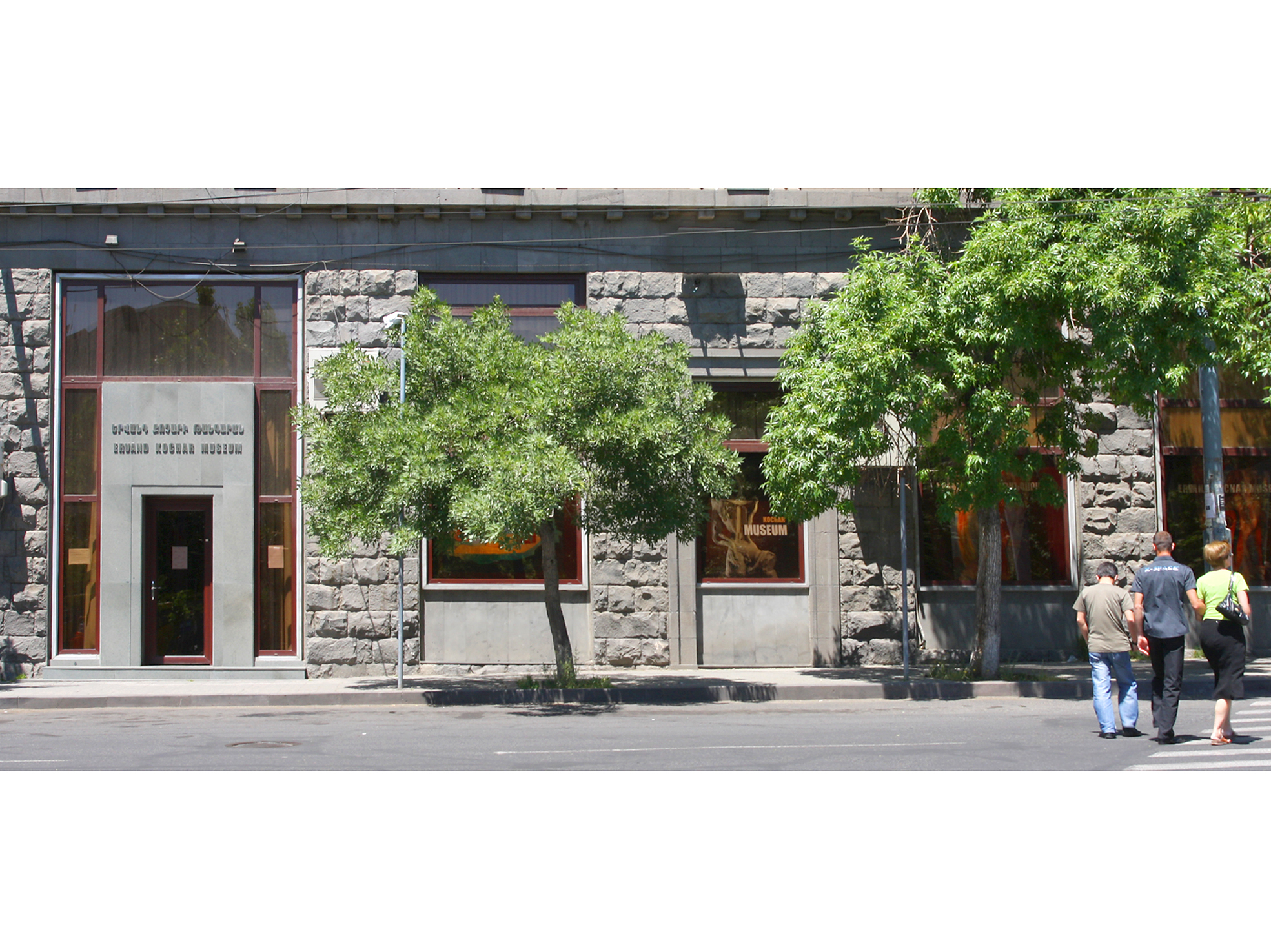 Yervand Kochar museum